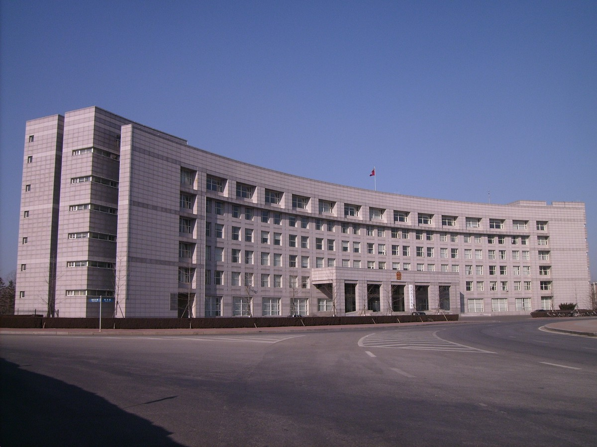 City hall of Zhuanghe city in Dalian, China